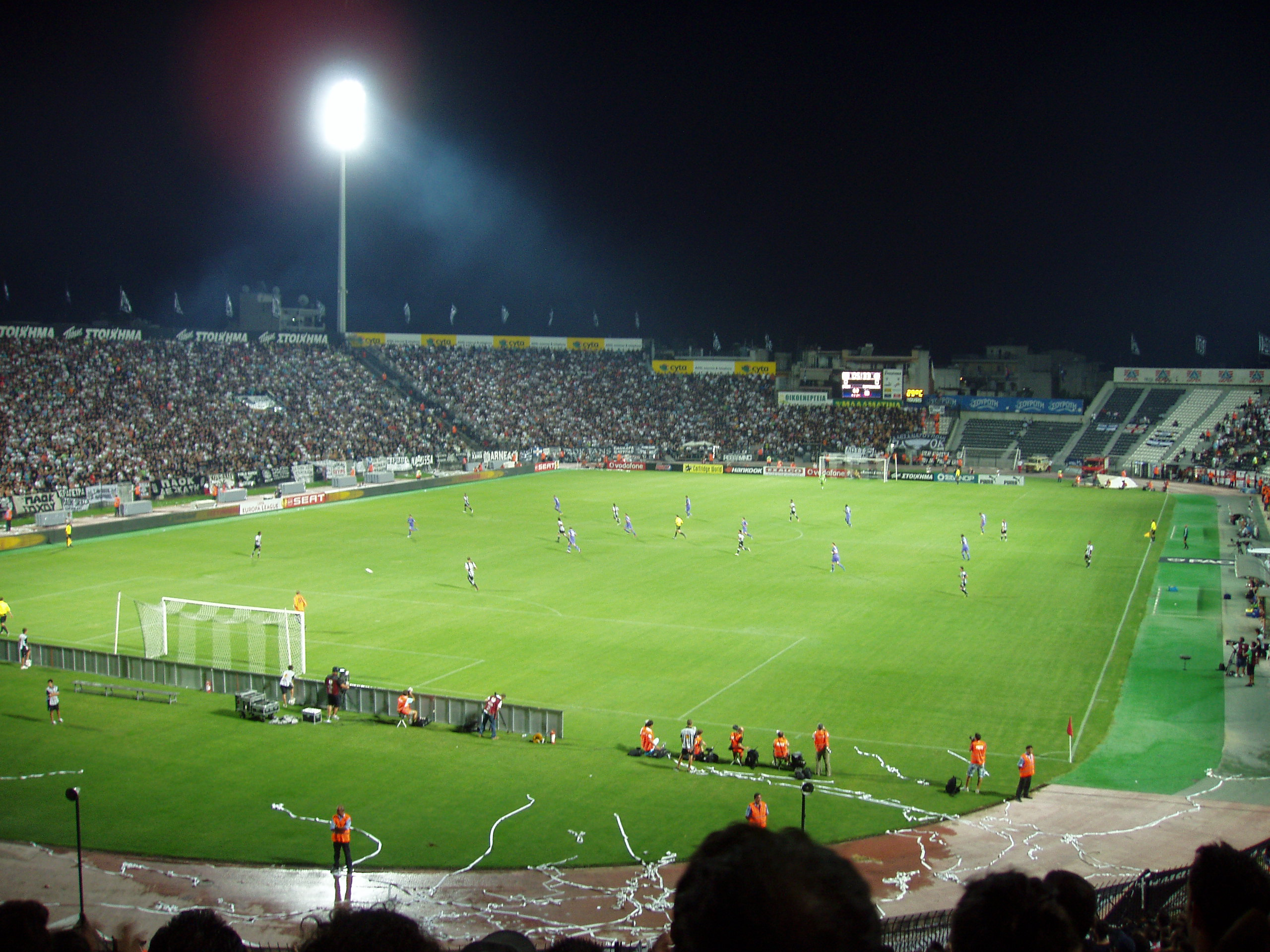 The game for Europa League between PAOK and Tottenham Hotspur at Toumba Stadium